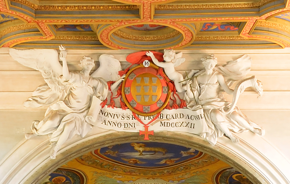 Basilica di Sant'Anastasia al Palatino (Rome) - Interior